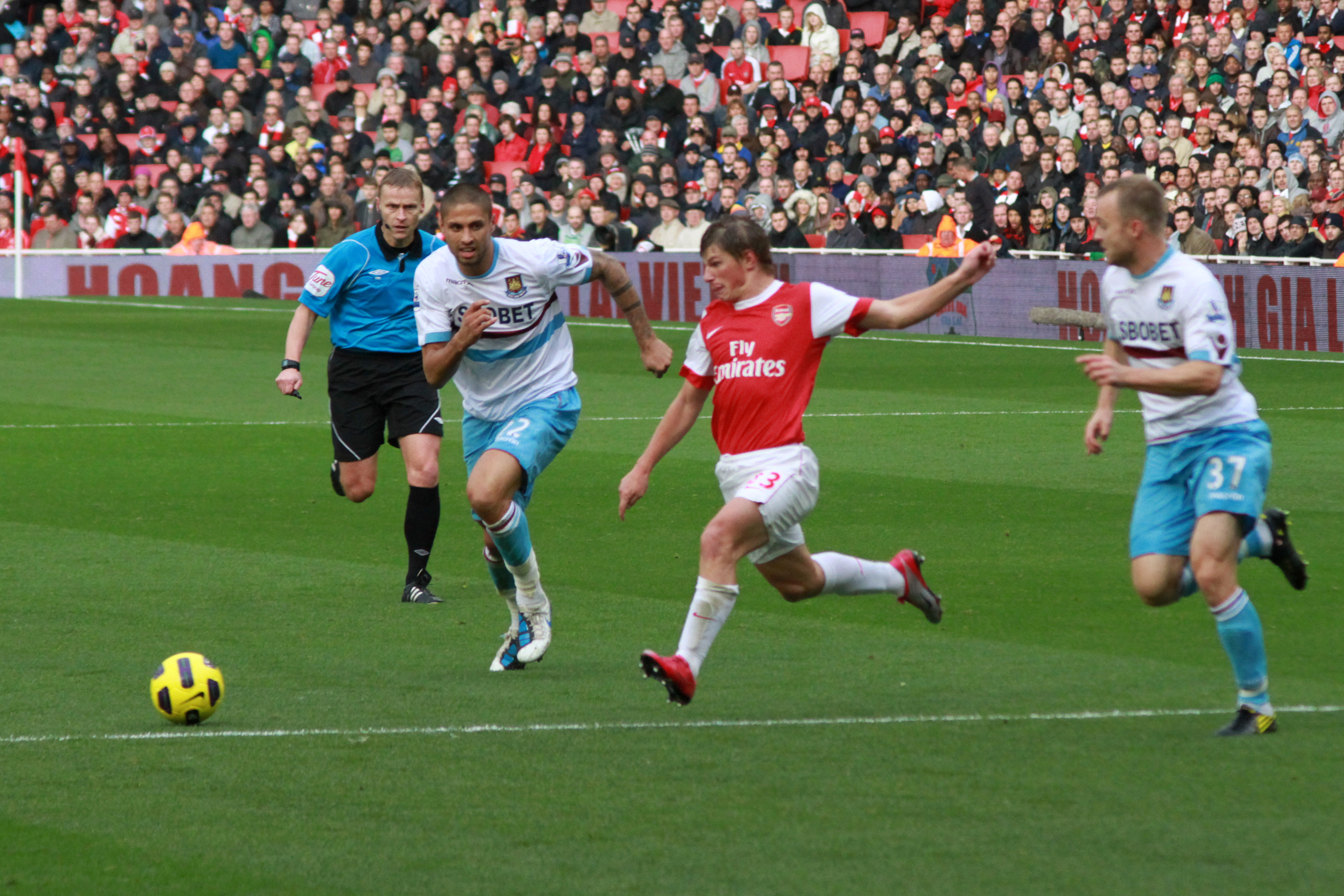 Andrei Arshavin, defended by Manuel da Costa and Lars Jacobson of West Ham. Referee Mike Jones looks on. Arsenal v West Ham United at the Emirates Stadium on 30 October 2010. Arsenal won 1-0 with a late 88minute goal by Alex Song.